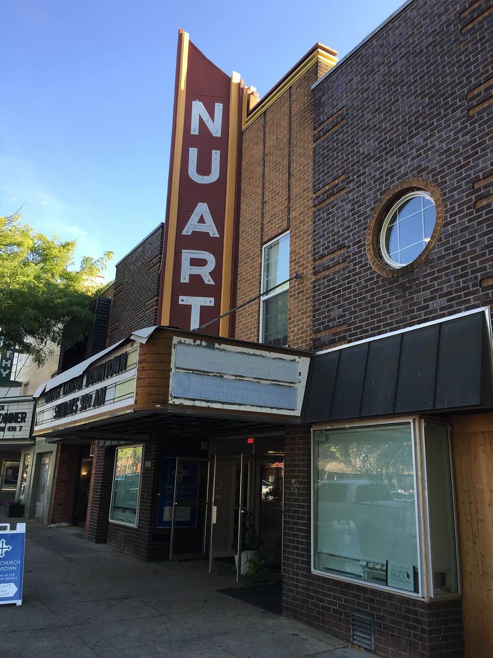 Nu Art Theatre Structure currently serves as the home of Christ Church Downtown.